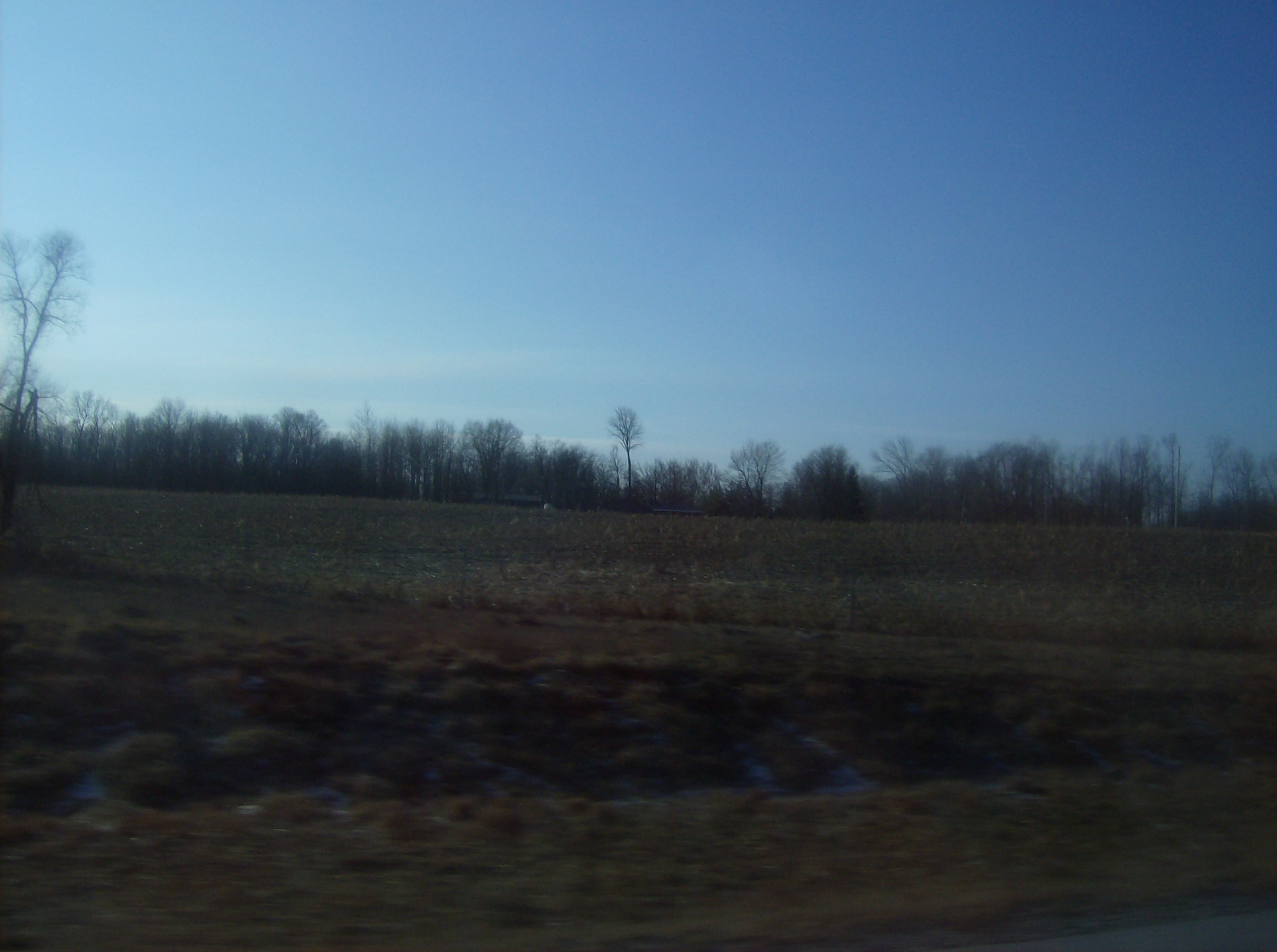 Countryside in eastern Lagro Township, Wabash County, Indiana, United States. Picture taken southward from U.S. Route 24.